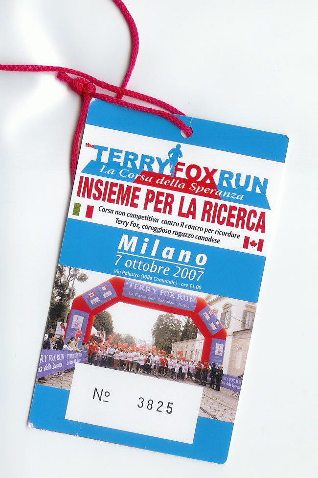 Terry Fox Run